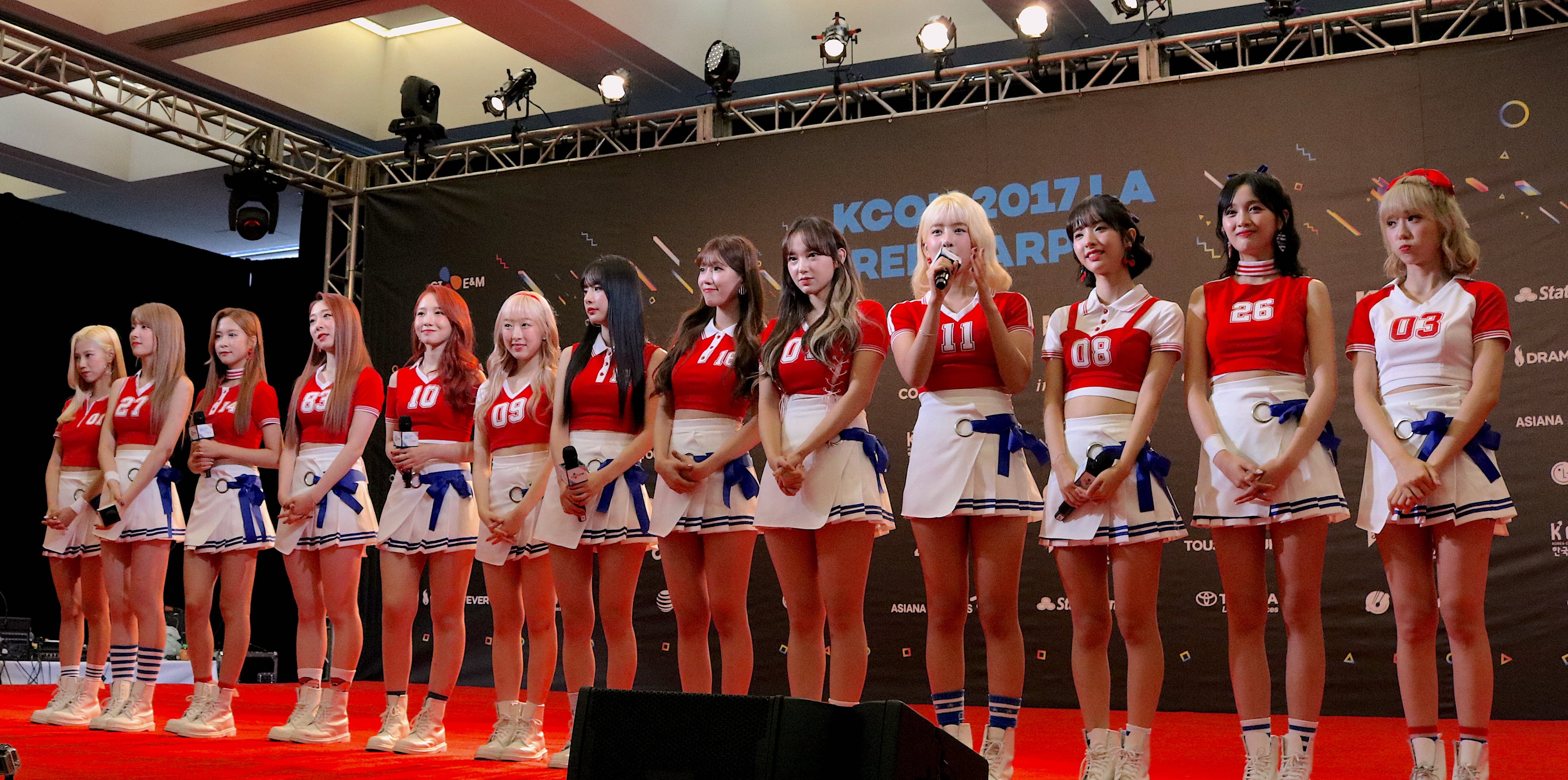 Cosmic Girls at KCon 2017 LA